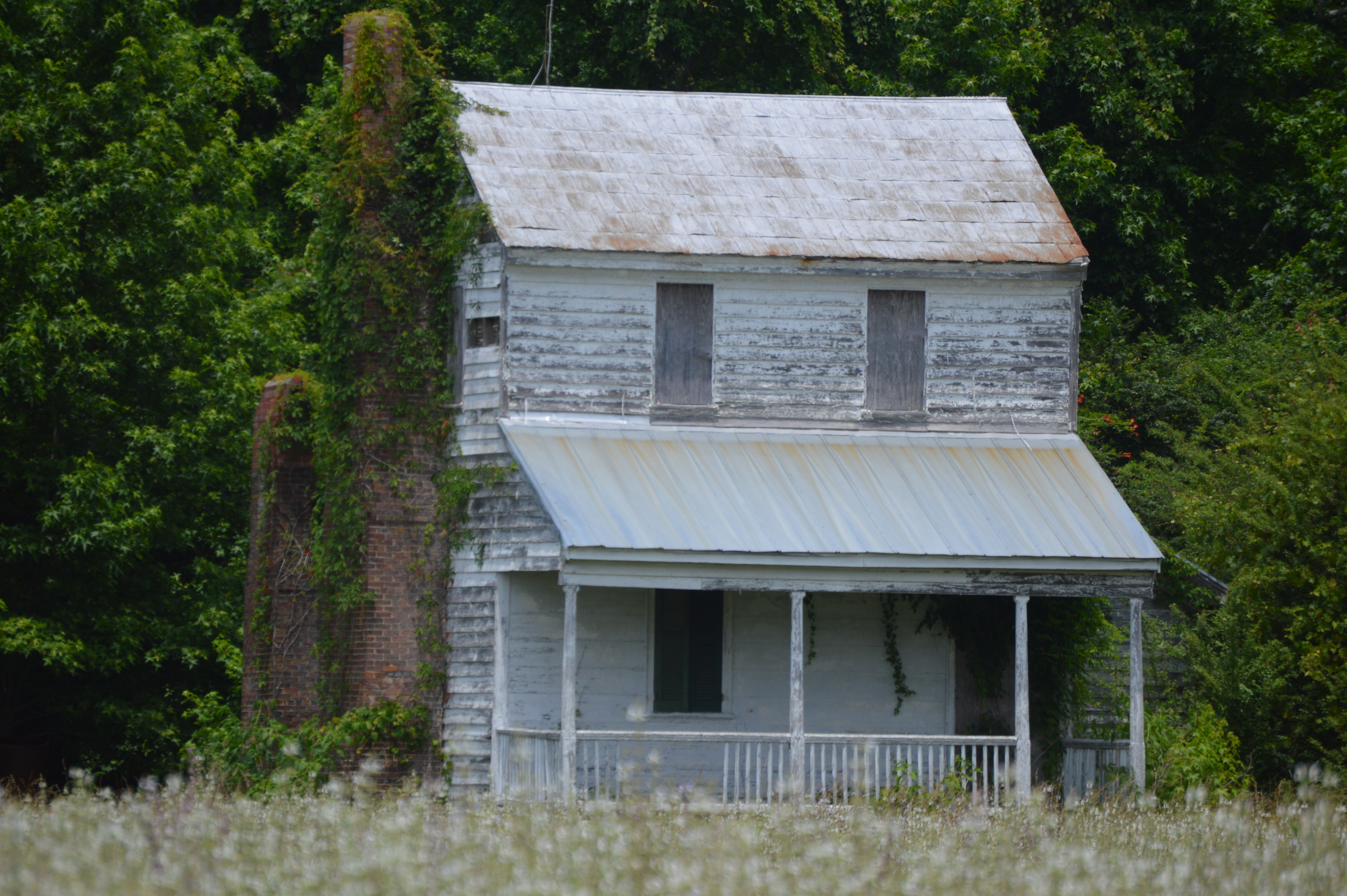 Front of the Joseph Freeman Farmhouse, located on Lee's Mill Road northwest of Gates in Gates County, North Carolina, United States. Built in 1821, it is listed on the National Register of Historic Places.